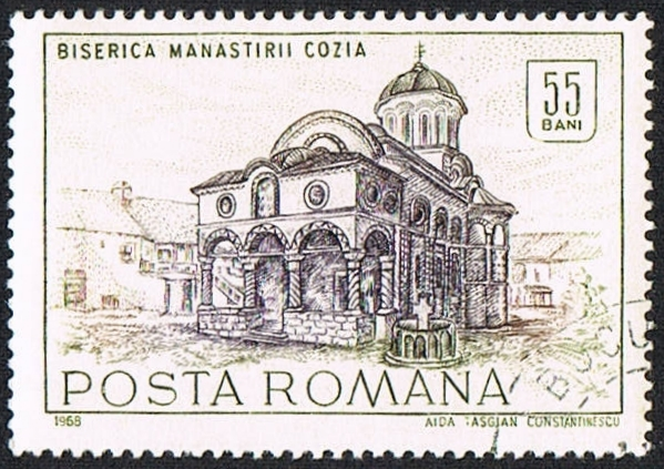 scanned stamp from Rumanian post (Posta Romana). Monastry Church Cozia